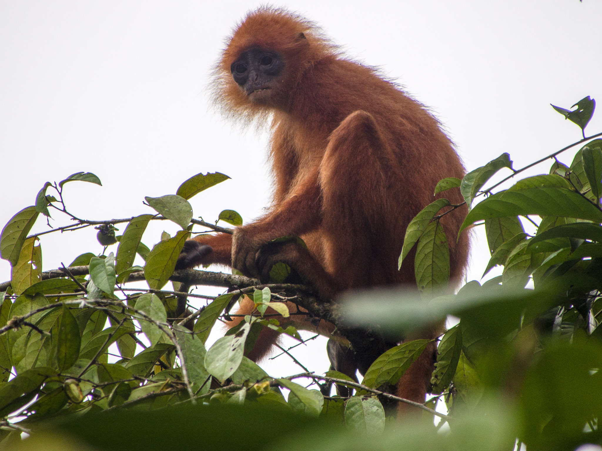 Maroon (or Red) Leaf Monkey